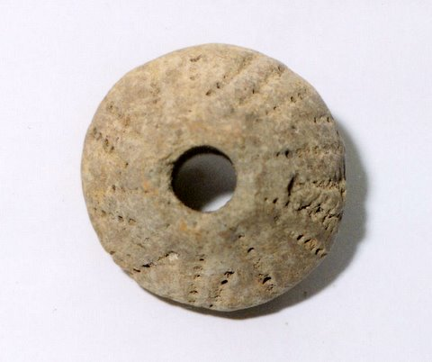 Big spindle whorl late Bronze periode